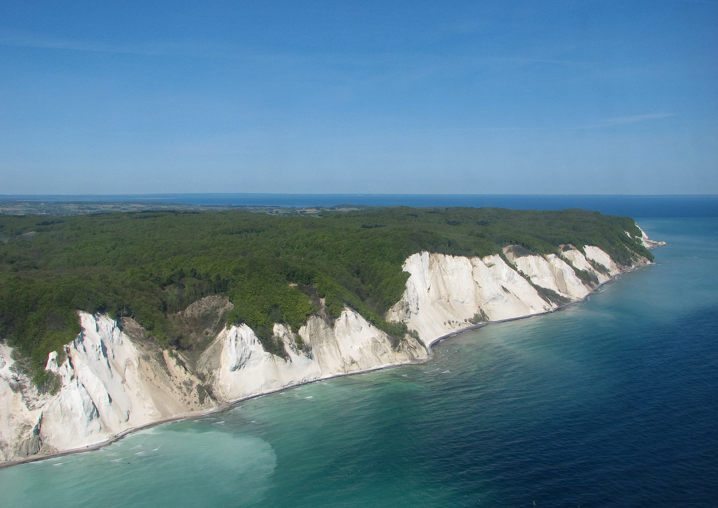 An aerial photo of Møns Klint (the Cliffs of Møn) in Denmark. Maglevands Fald is seen in the middle, with Dronningestolen on the right.